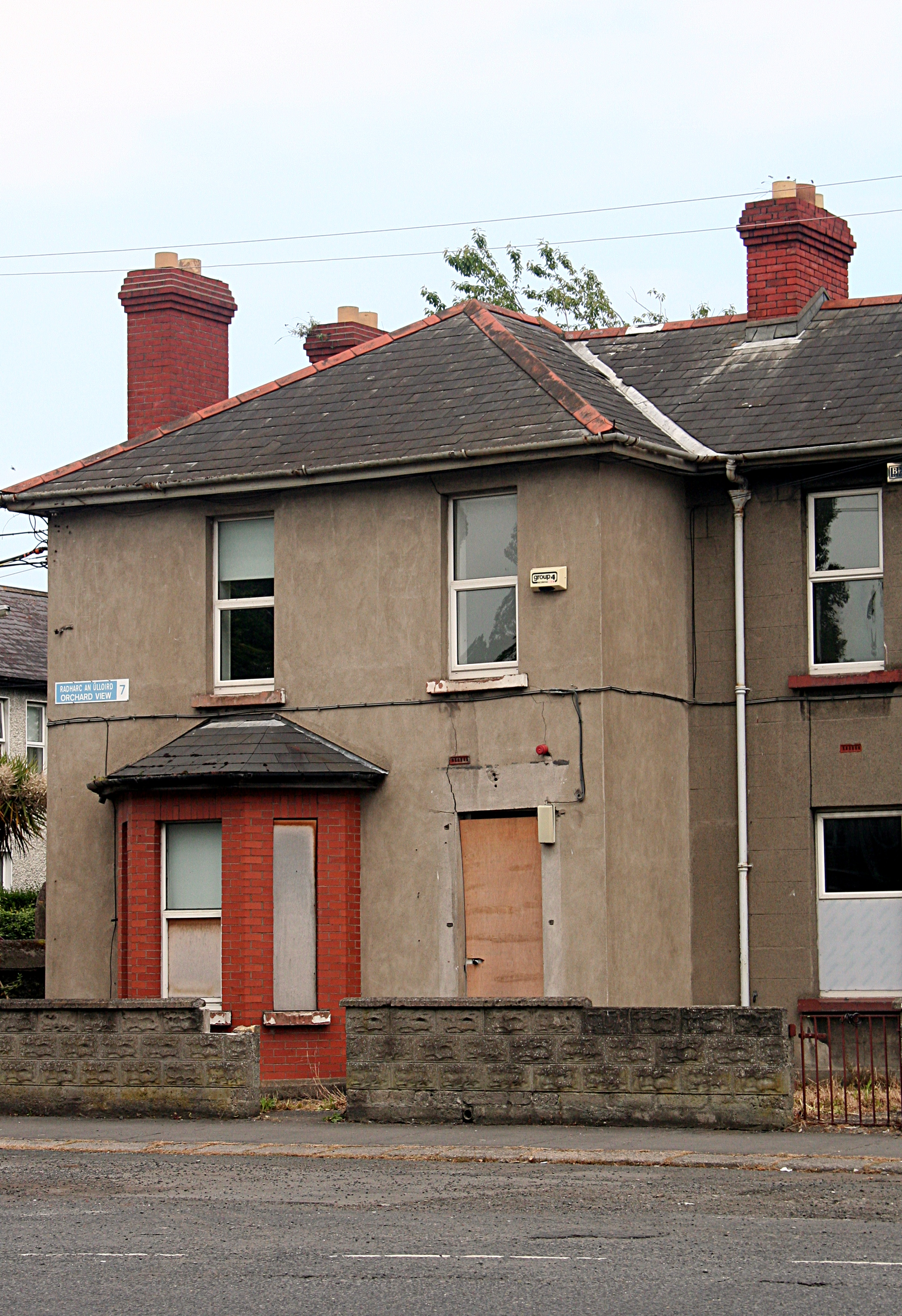 No.1 Orchard View, Grangegorman, Dublin, Ireland. This was the location of the Grangegorman killings.